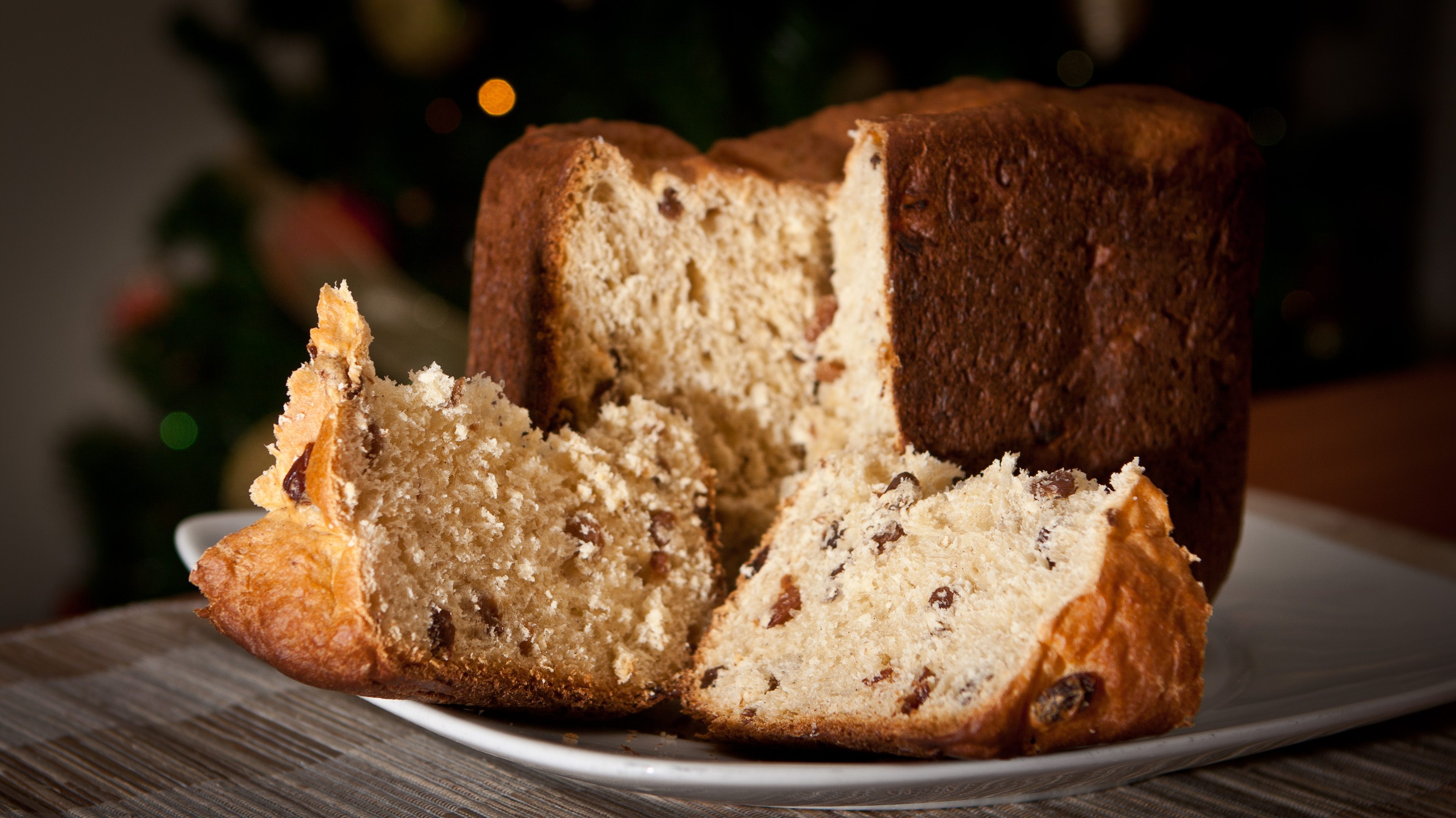 Homemade panettone with bread machine.